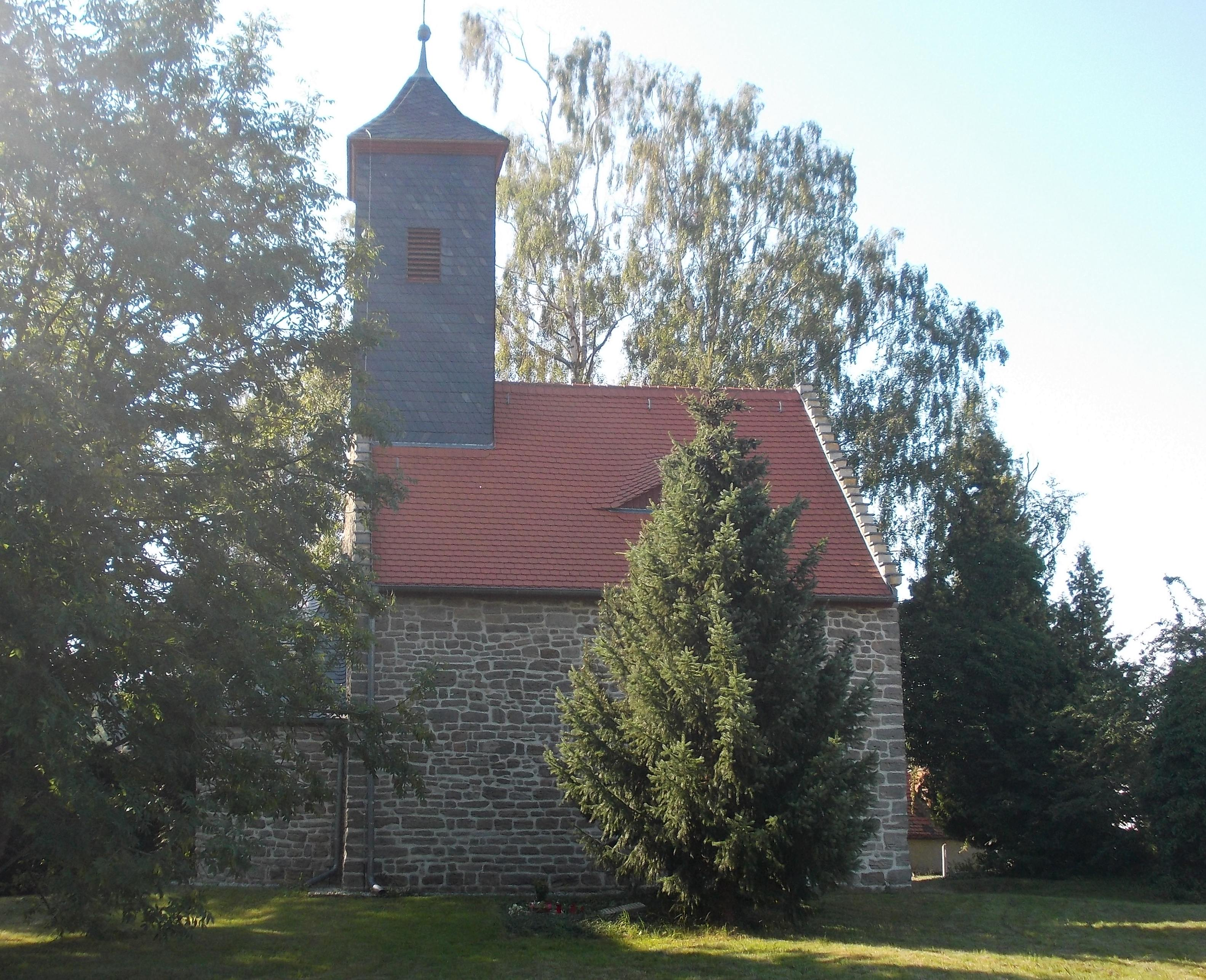 Nissma church (Elsteraue, district: Burgenlandkreis, Saxony-Anhalt)